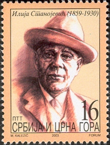 Famous Serbian Actors - Ilija Stanojevic (1859-1930)